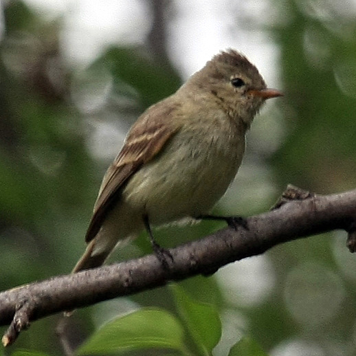 Camptostoma imberbe Northern Beardless Tyrranulet